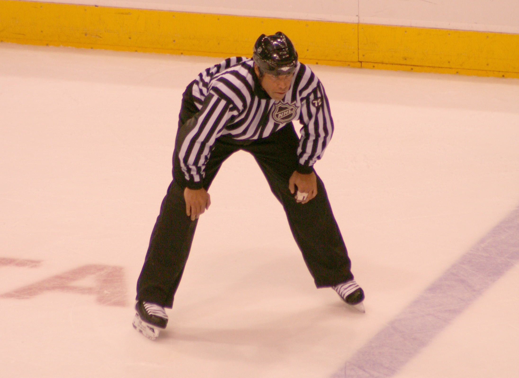 Jay Sharrers